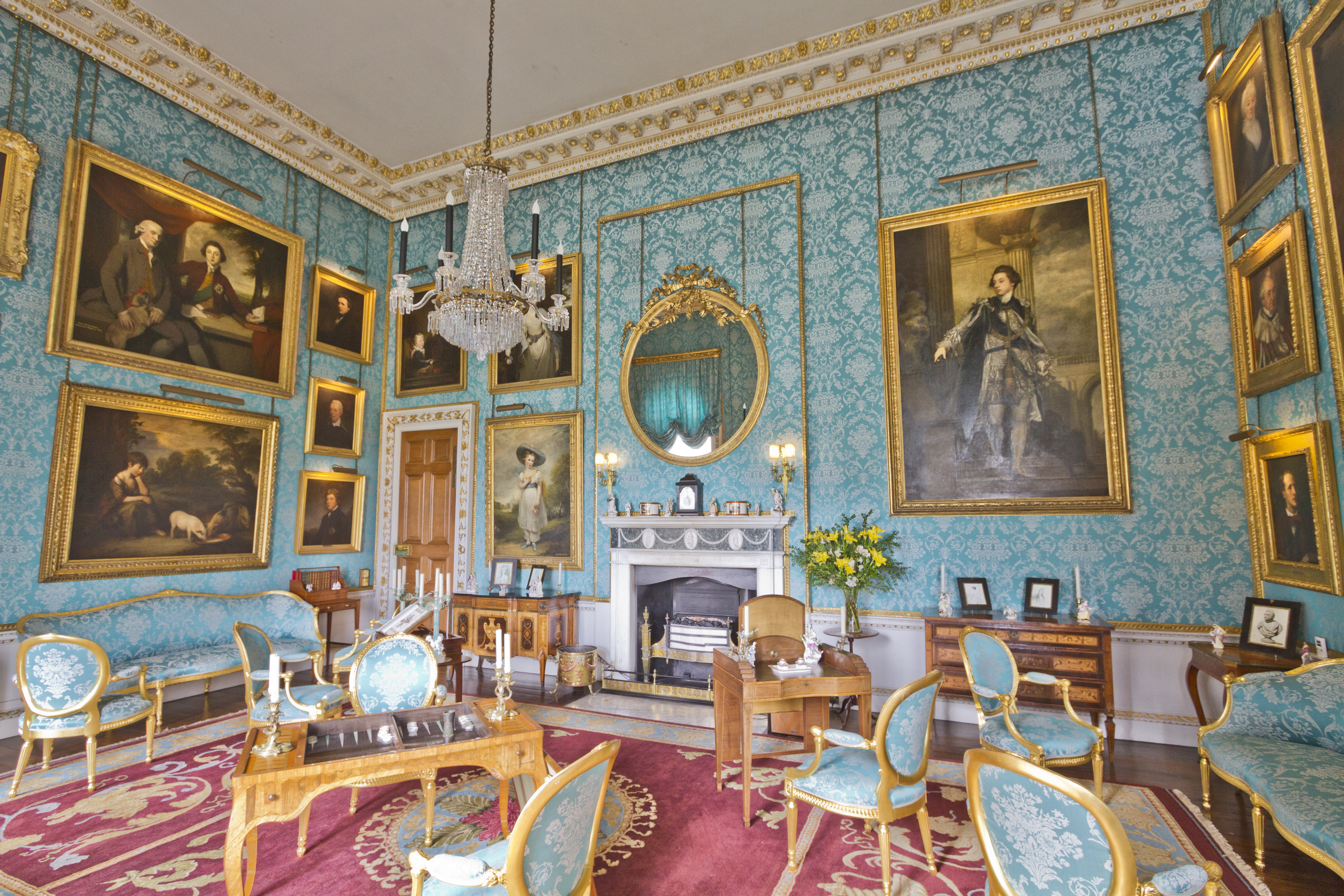 Here is a photograph taken from the Turquoise Drawing Room inside Castle Howard. Located in York, Yorkshire, England, UK.